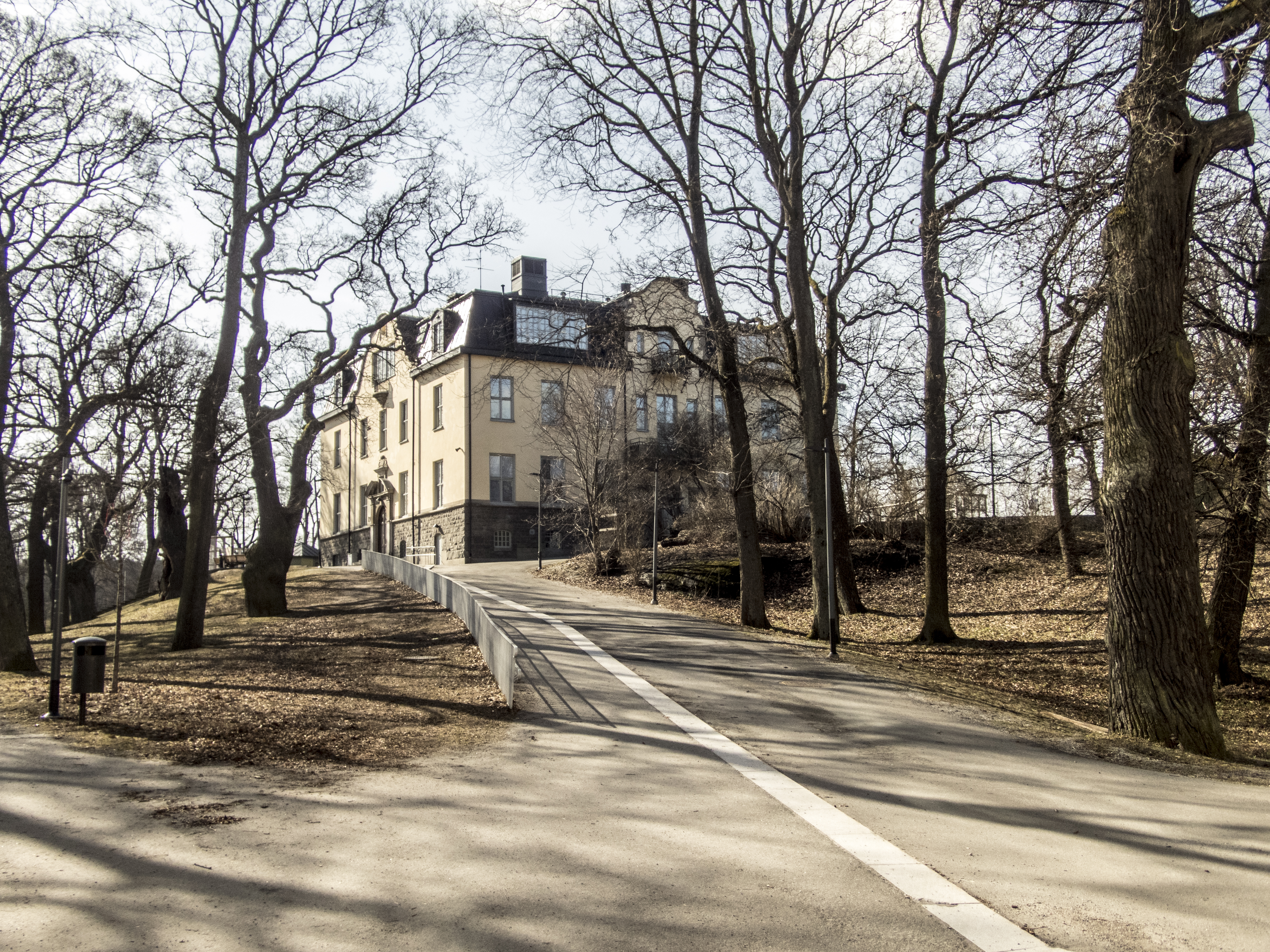 Kristinebergsskolan, Stockholm. Nybyggnadsår 1906 - 1906 Ludwig Peterson (Arkitekt) Frimurarbarnhusets direktion (Byggherre) Jakob Sjökvist (Byggmästare)